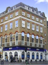 94 Baker Street, London; formerly the Apple Boutique